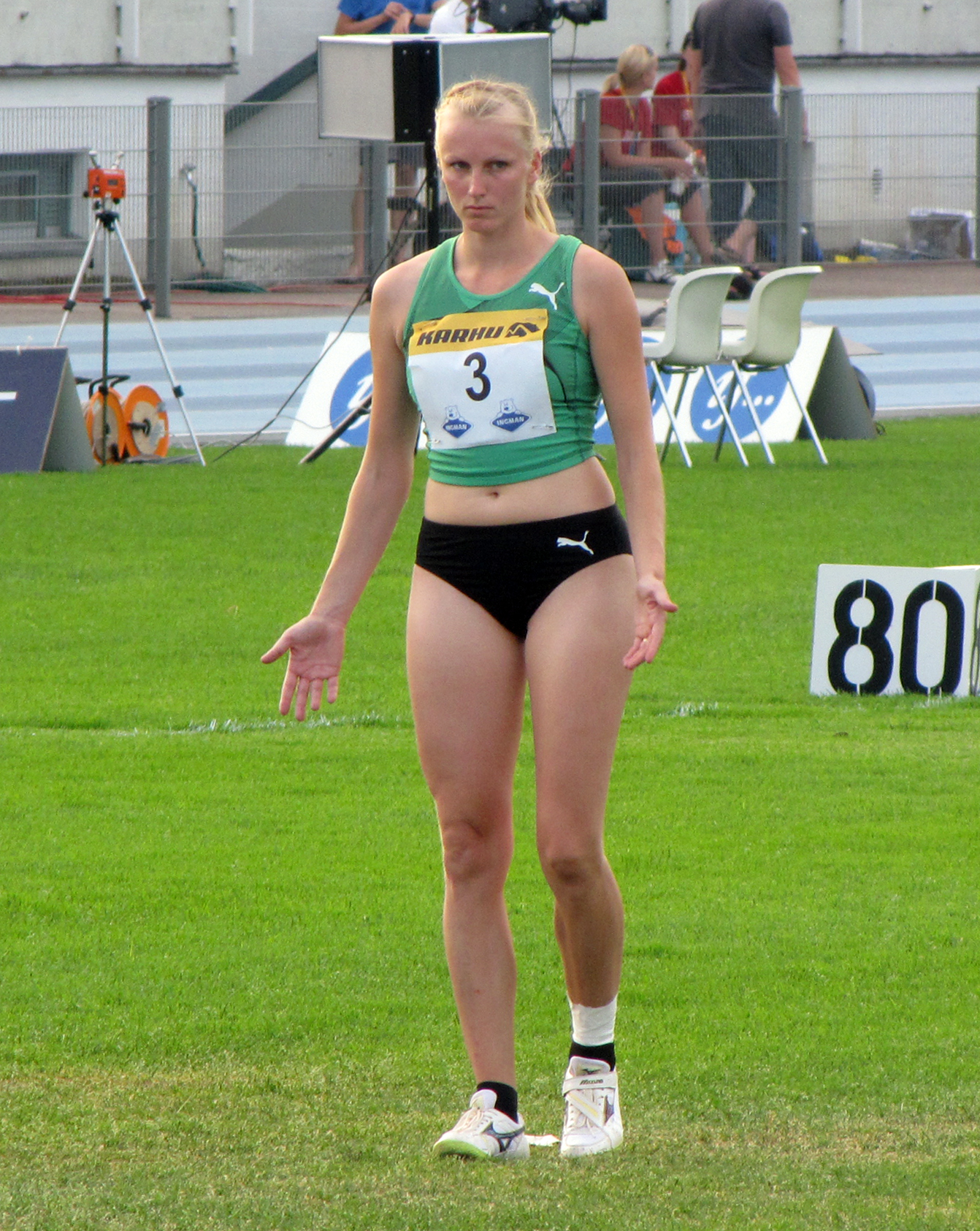 Finnish high jumper Hanna Grobler performing at Lappeenranta Games, Finland, 2010.